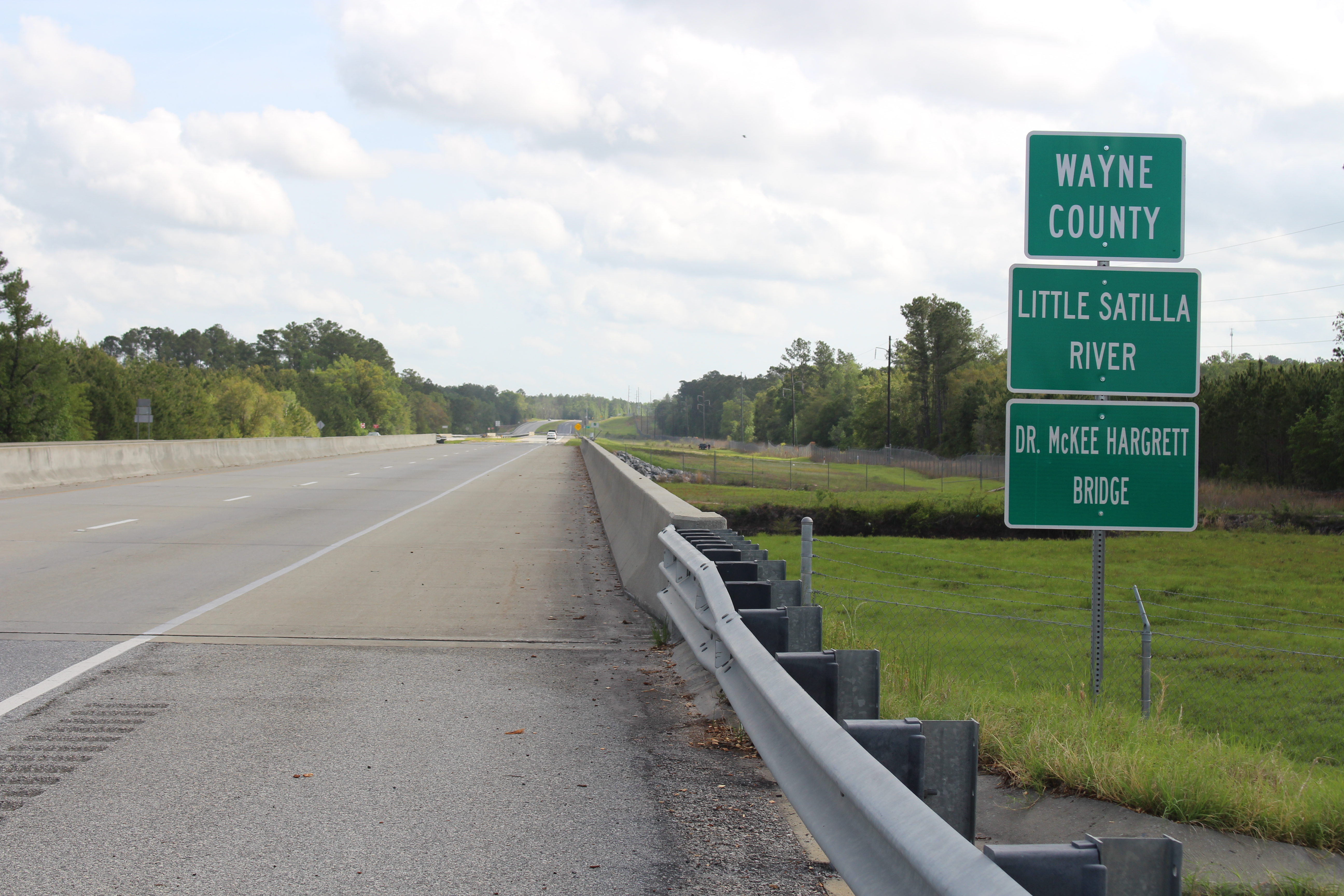 Little Satilla River/Wayne County border US84EB, Pierce/Wayne County, Georgia